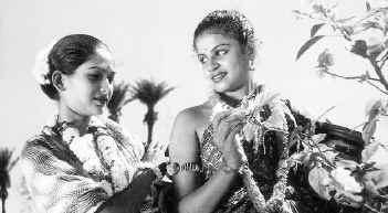 M. S. Subbulakshmi (right) in Shakuntala (1940)